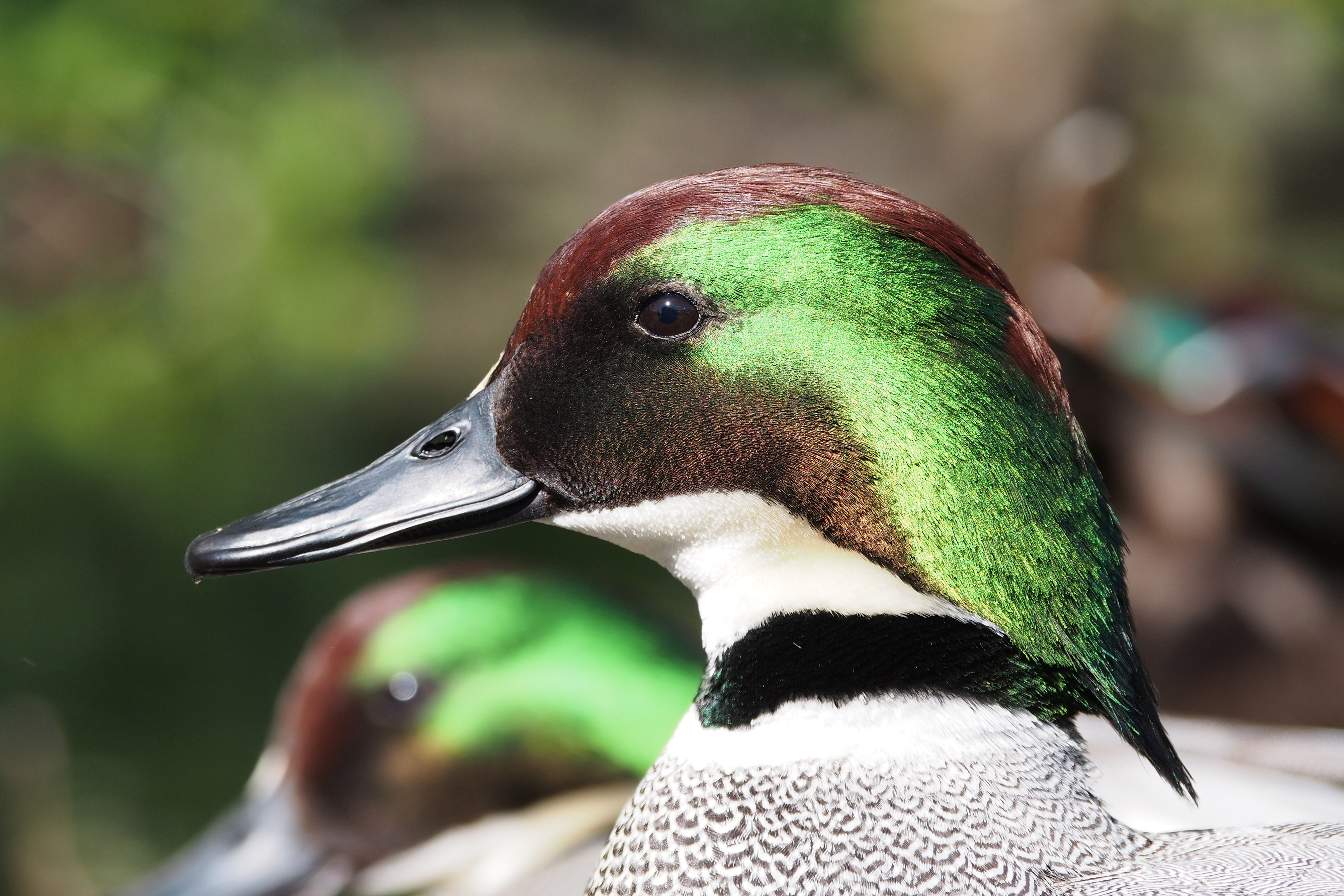 Falcated duck, Anas falcata, portrait. Martin Mere, Uk.